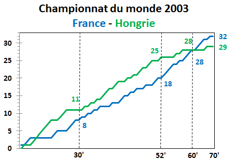 2003 World Women's Handball Championship - Finale - Score evolution